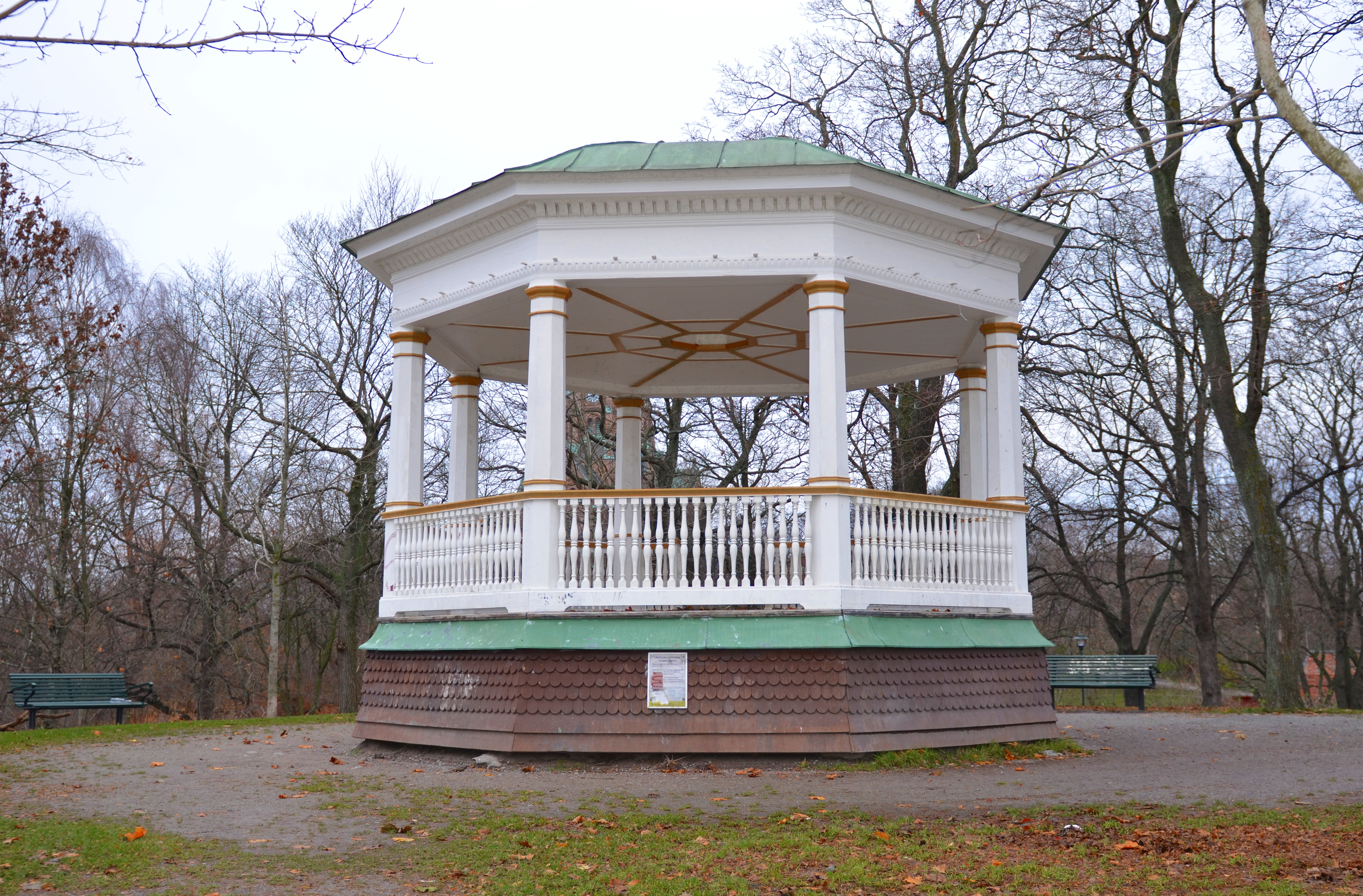 The Musikpaviljongen in the park Vitabergsparken in 2012.